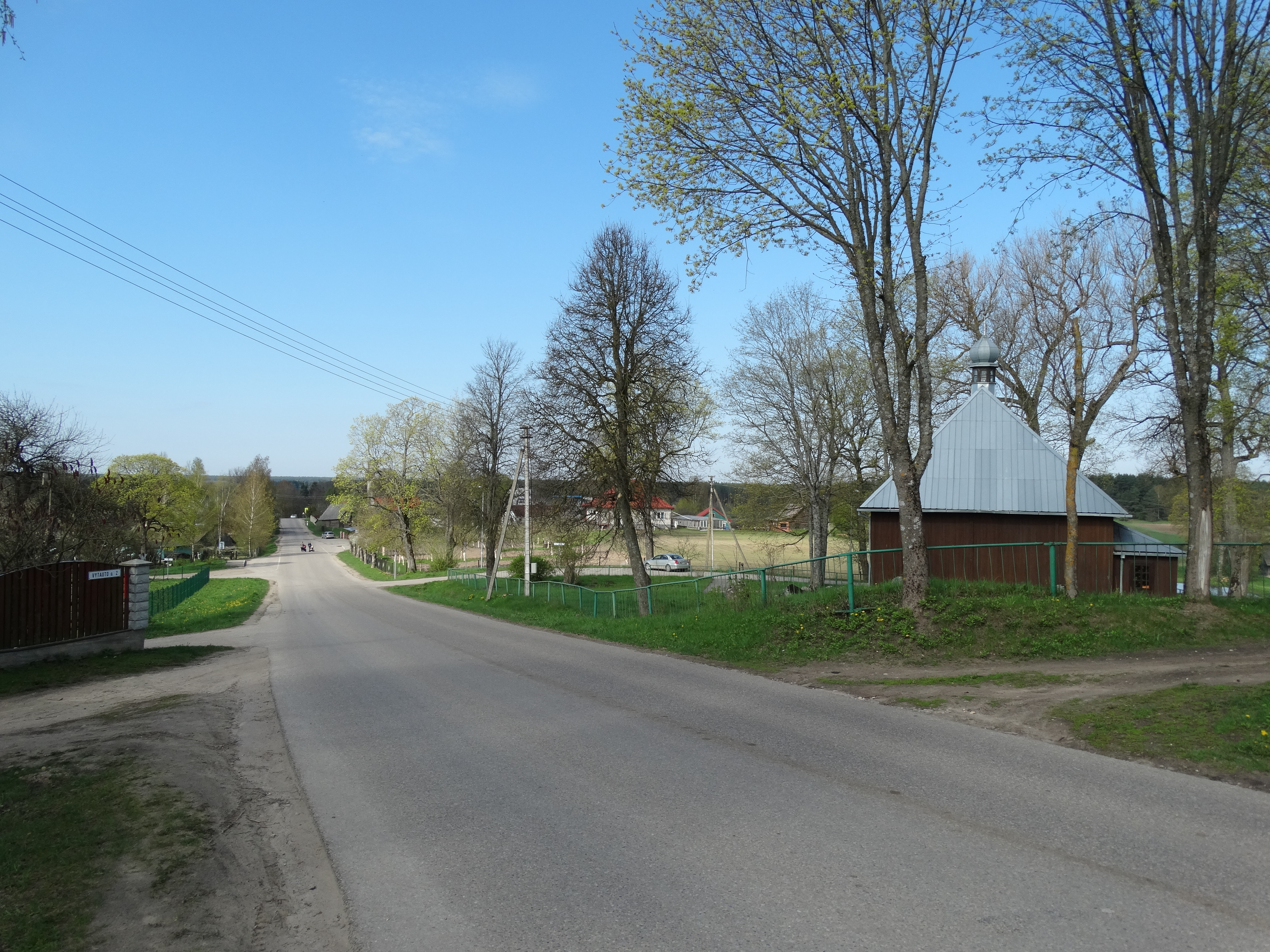 Mosque in Keturiasdešimt Totorių, Vilnius District, Lithuania